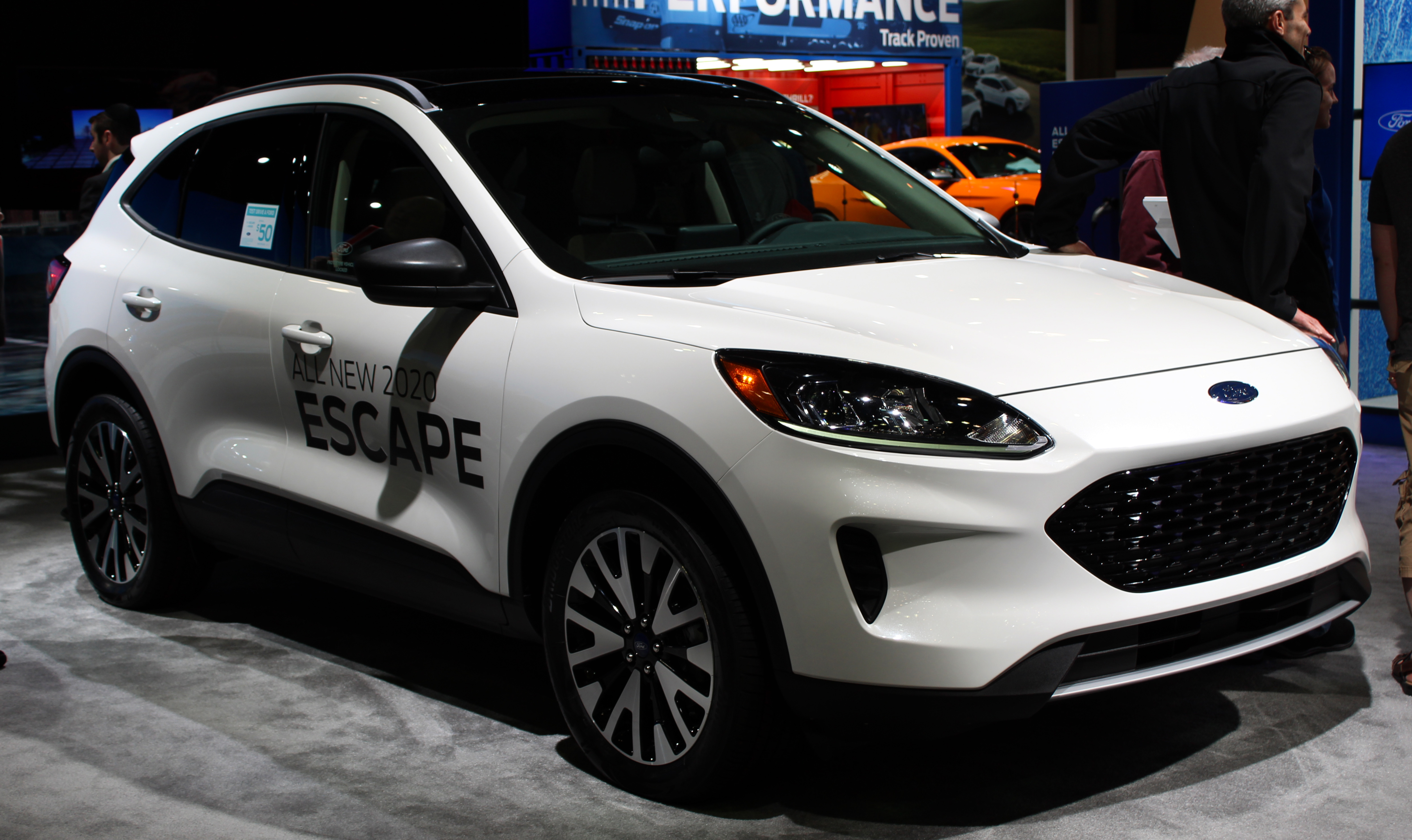 A 2020 Ford Escape Hybrid photographed during the 2019 New York International Auto Show, in Hudson Yards, Manhattan, NYC